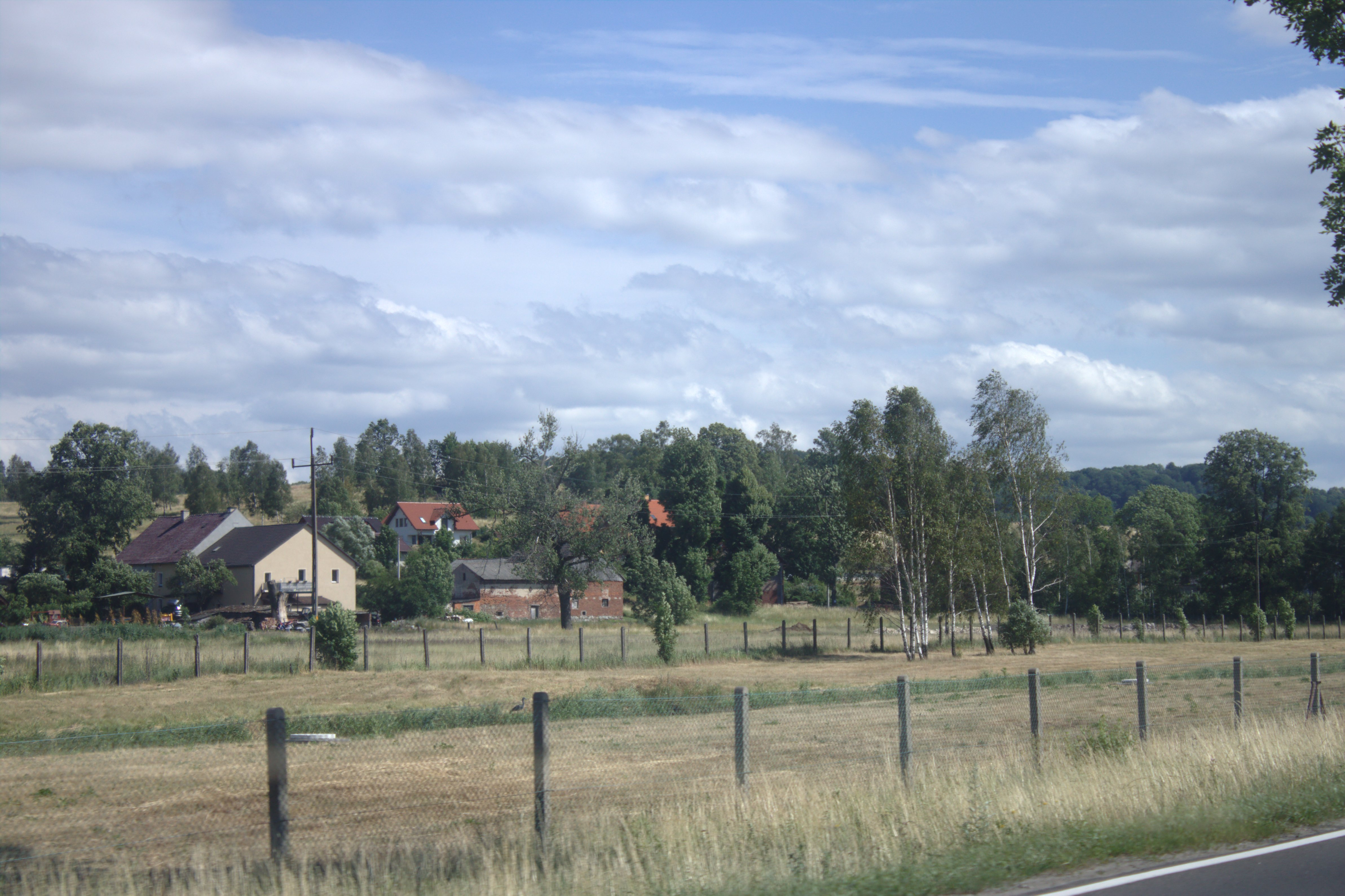 This photograph was created as a part of Wikiexpedition Lower Silesia, a project supported by Wikimedia Poland grant.